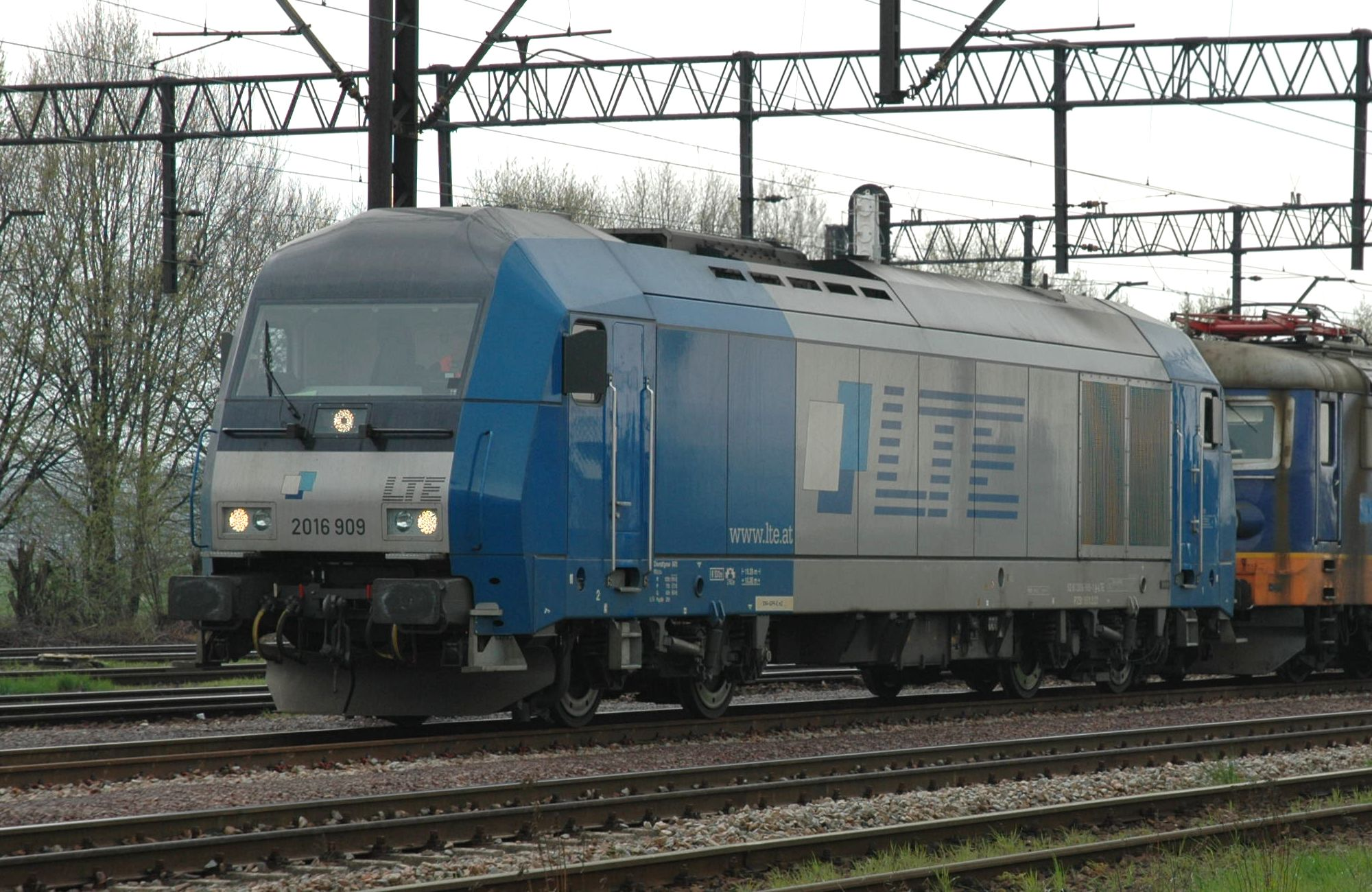 Locomotive 2016 909 owned by LTE Logistik- und Transport, operated by LTE Logistik a Transport Czechia, Chałupki station, Poland